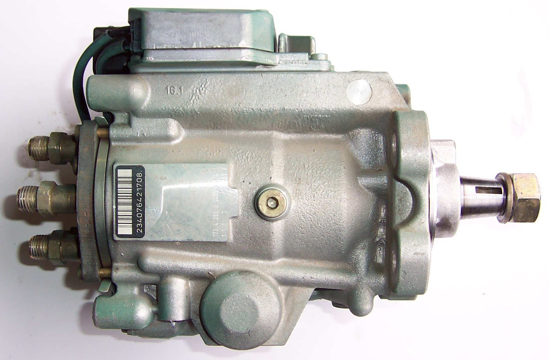 Bosch VP 44 rotary diesel injection pump, electric adjustable